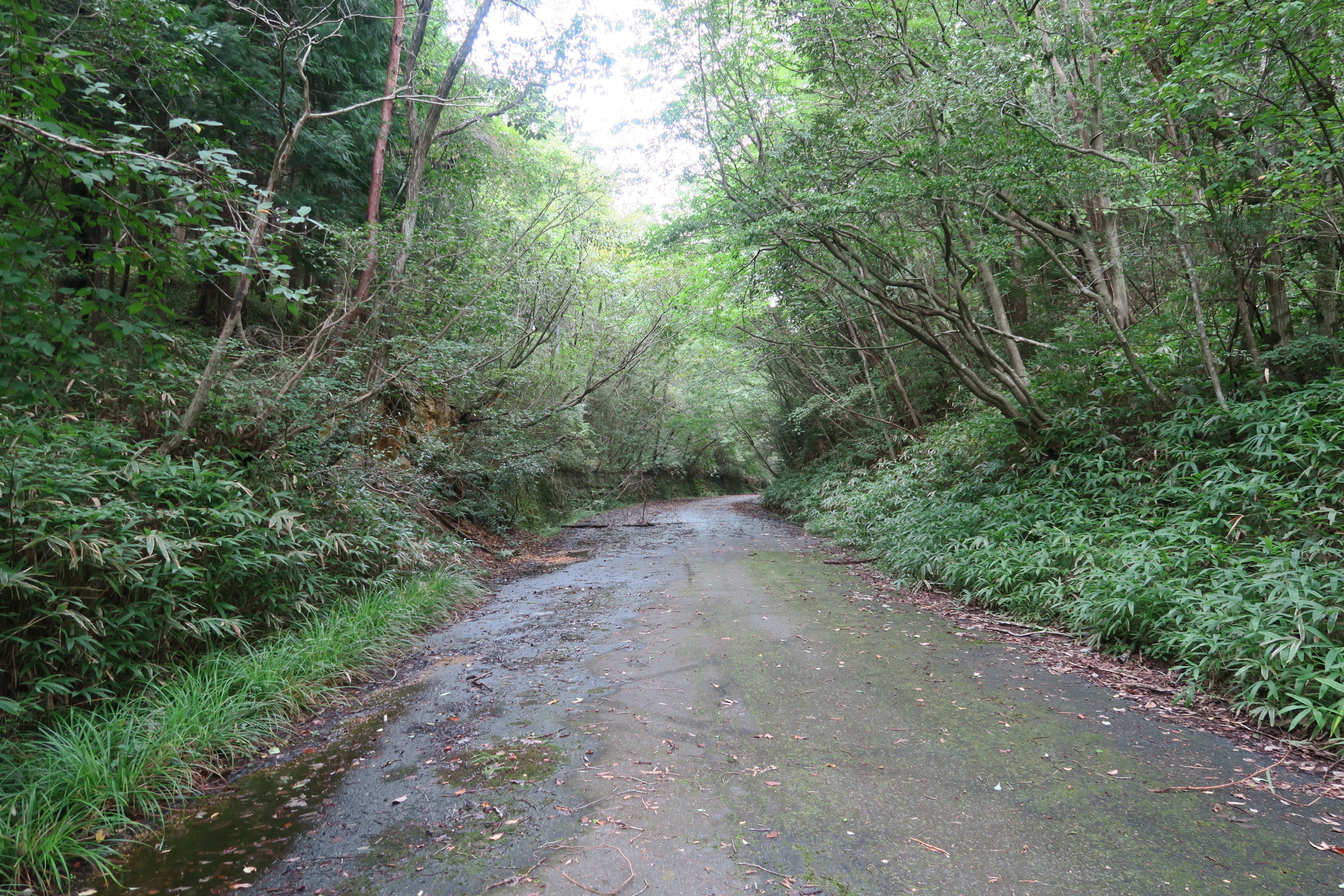 Kono Pass between Minakuchi and Shigaraki in Koka, Shiga, Japan